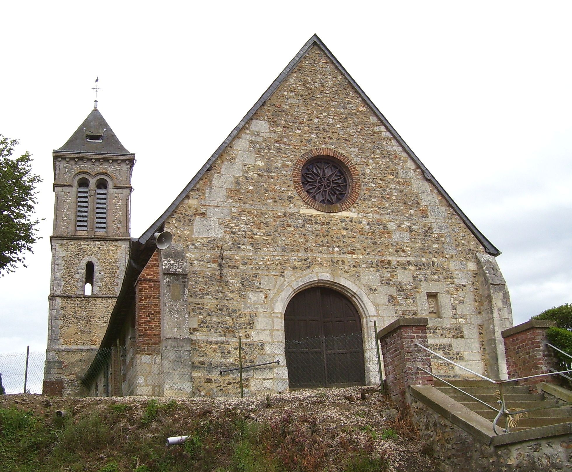 Church of Saint-Georges-du-Vièvre, bell tower 12th century, nave 18th century (Haute-Normandie, France).